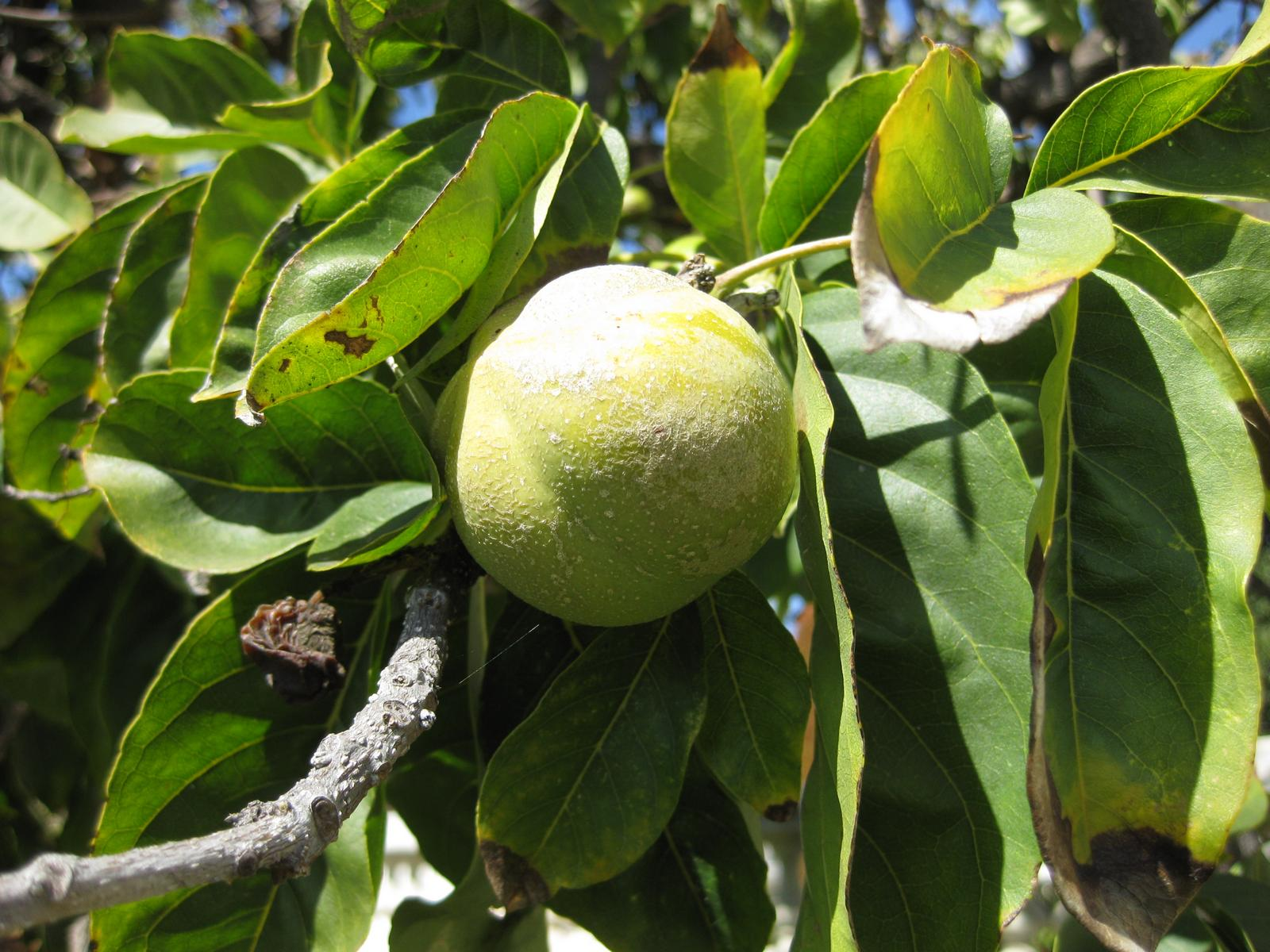 Photographed at Huntington Gardens (Los Angeles) in March